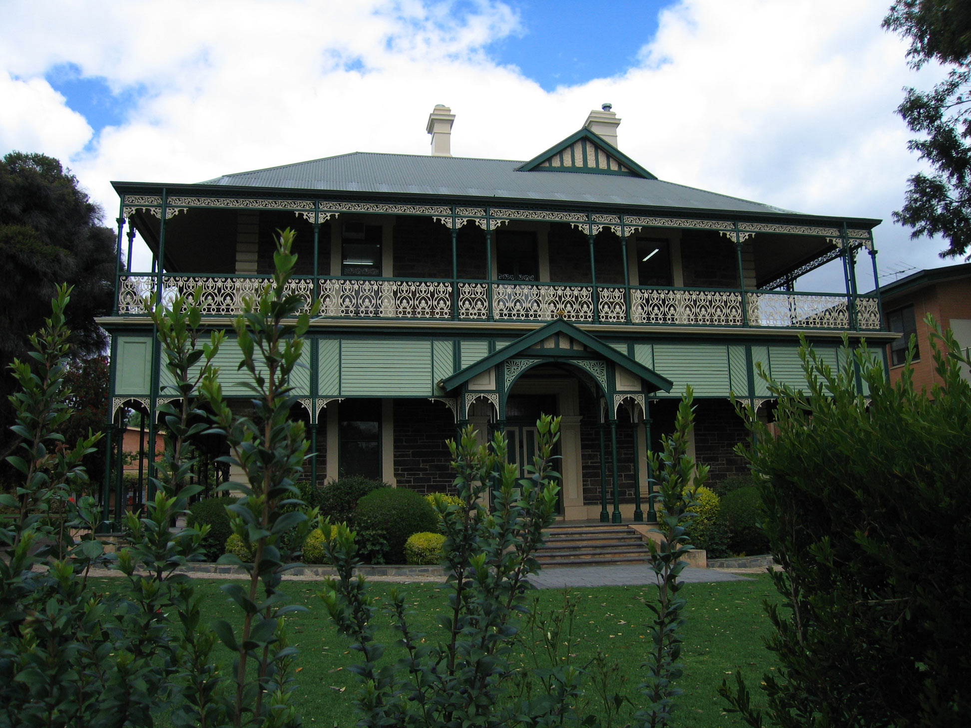 Pembroke School, Adelaide: King's Campus.